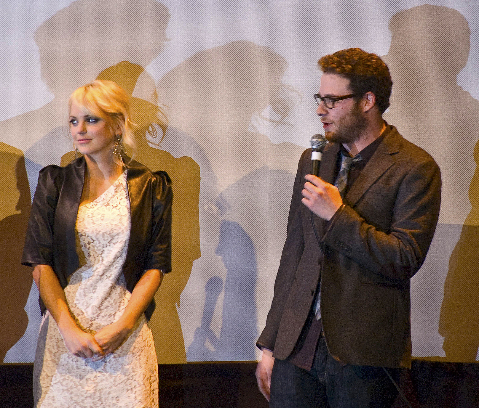 Anna Faris and Seth Rogen fielding questions at the Observe and Report world premiere.